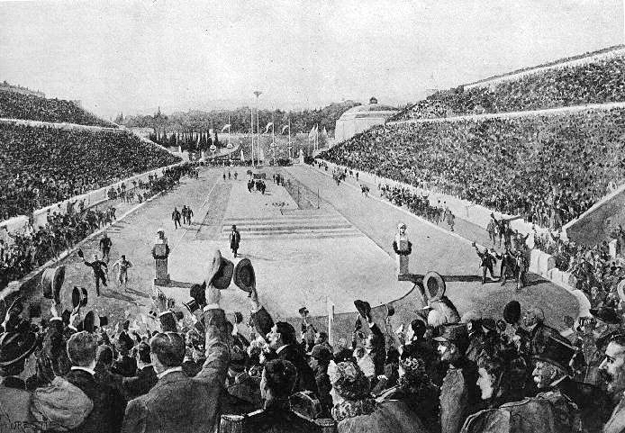 Spiridon Louis entering the stadium at the end of the marathon.